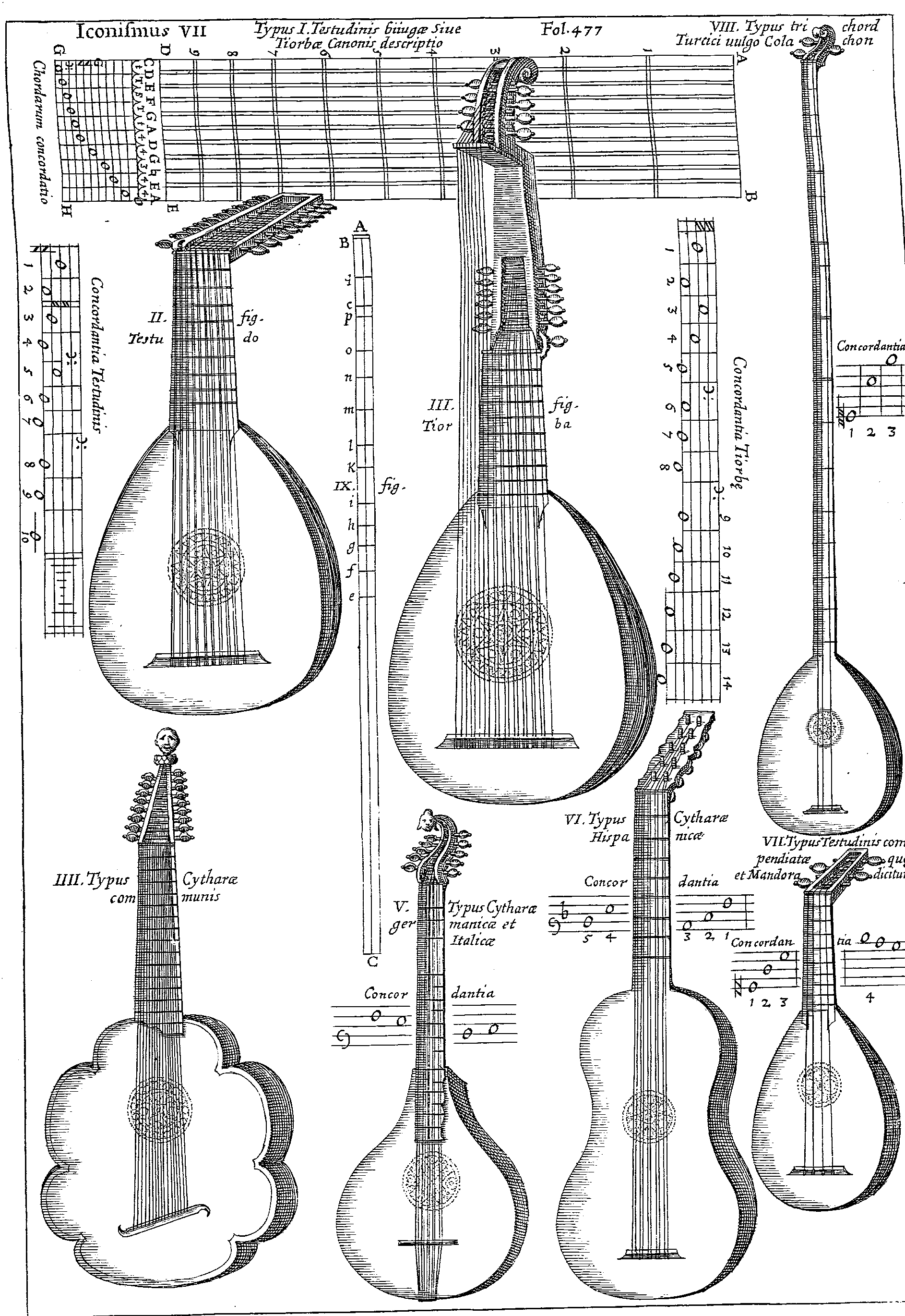 Plucked string instruments of 17th century Europe, labeled in Latin.